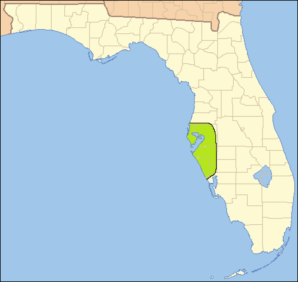 Map of the approximate area of the Manasota archaeological culture, based on the map on page 38 of Luer, George M.; Marion M. Almy (March 1982). "A Definition of the Manasota Culture". The Florida Anthropologist 35 (1): 34–58.